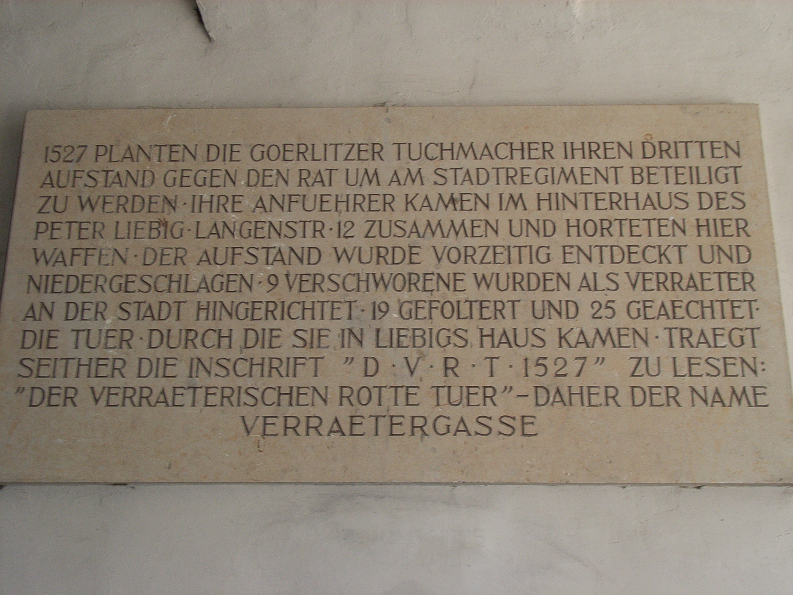 alleyway of traitors in Görlitz, Saxony